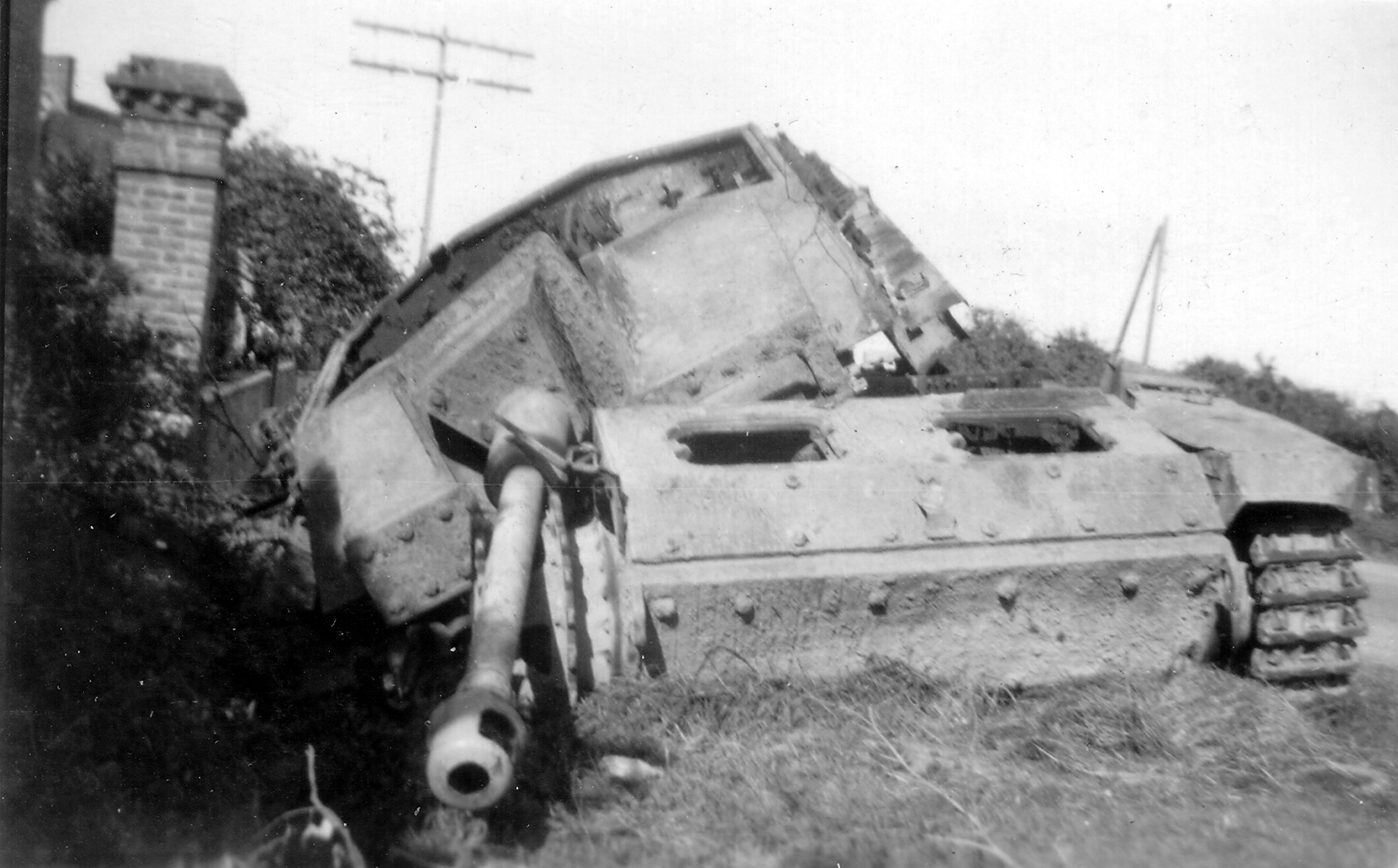 A destroyed Sturmgeschütz III at Quettreville-Sur-Seine, during the Normandy invasion